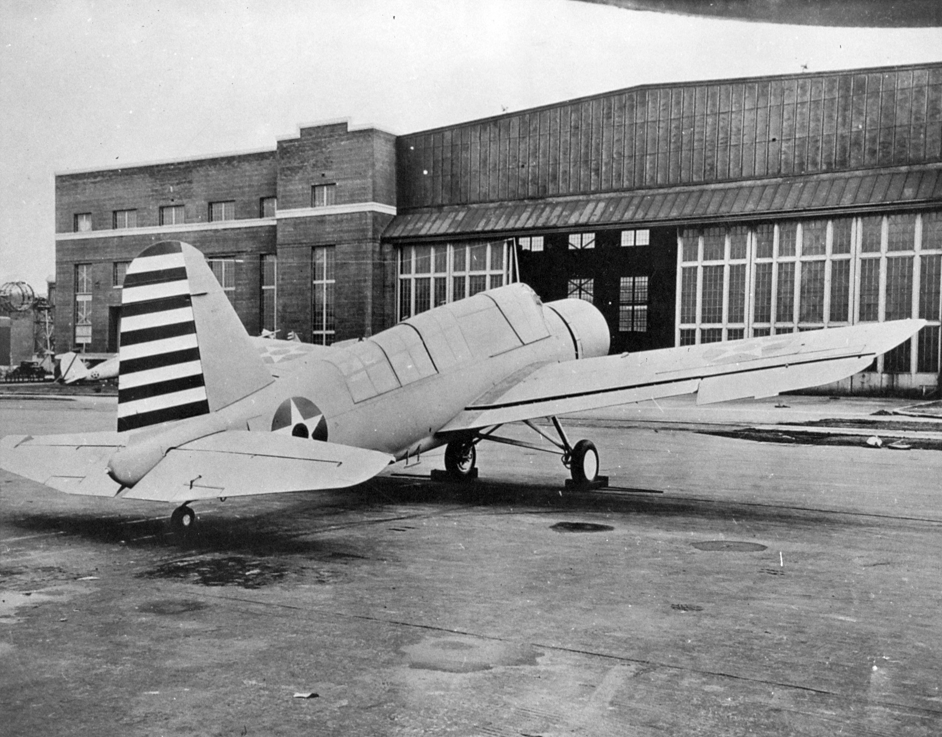 A U.S. Navy OS2N-1 Kingfisher at the Naval Aircraft Factory, Philadelphia, Pennyslvania (USA), in 1941/42. The Naval Aircraft Factory built 300 Vought OS2U-3 which were designated "OS2N-1".